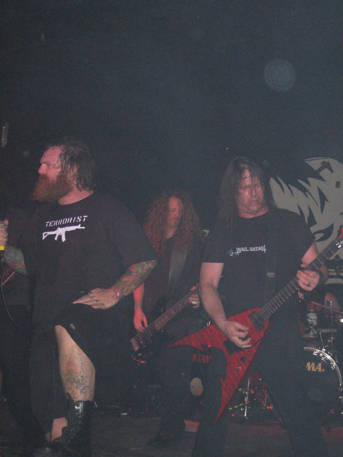 Thrash metal band Exodus. Concert in Hairy Mary's in Des Moines, Iowa. Part of The World Abominations Tour 2005.